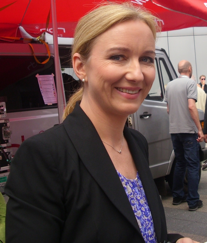 Cathrin Bonhoff at RBB Festival 2013 (10 years RBB)